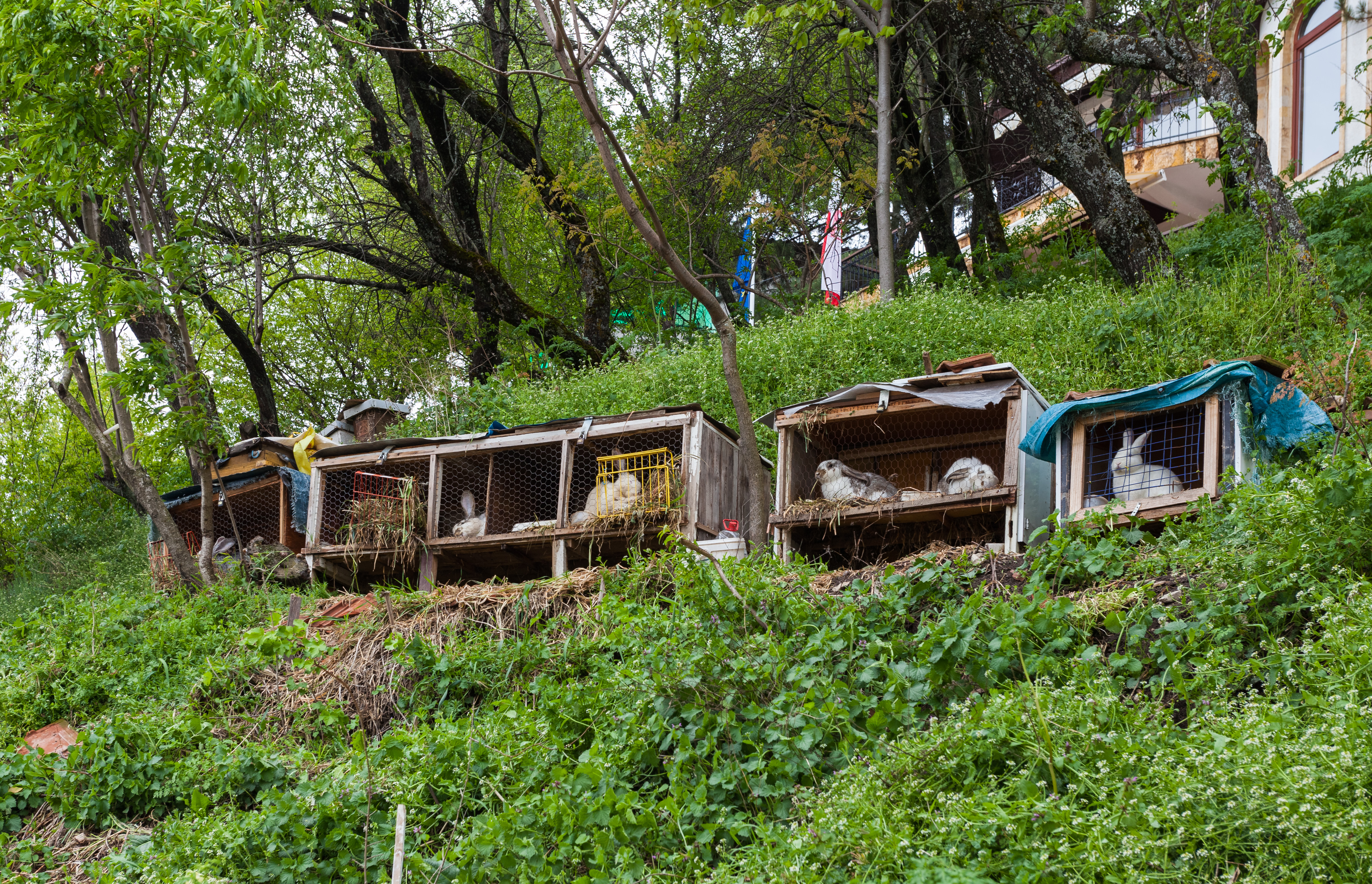 Rabbits (Oryctolagus cuniculus) in Ohrid, Macedonia